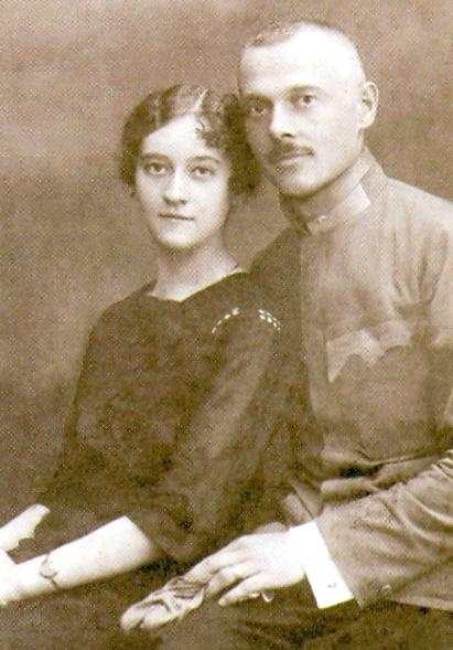 Vilmos Tkálecz, governing of the Prekmurian Republic and his wife Margit Anna Preiszler from Črenšovci